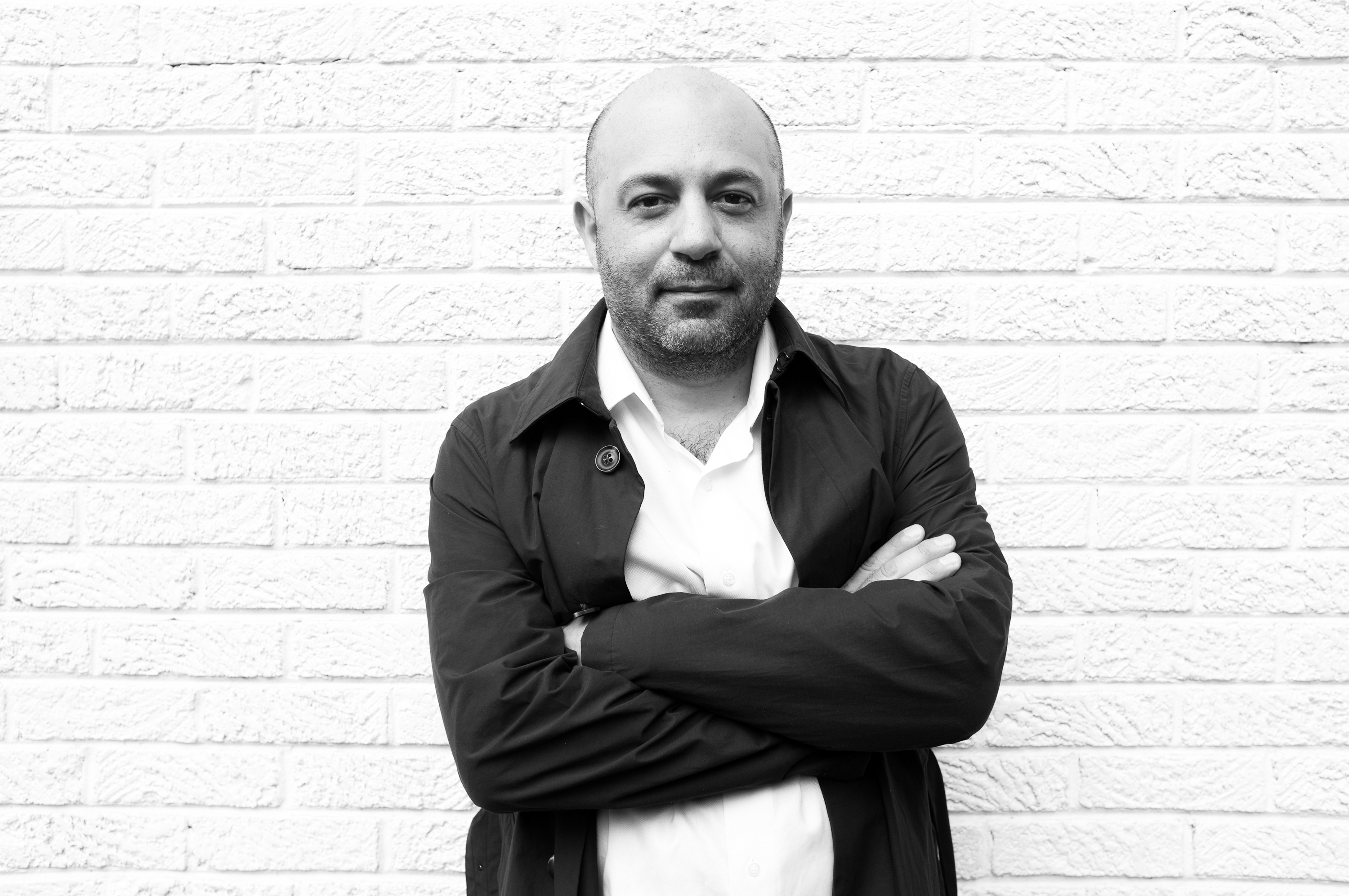 Black & White photo of Daniel Tashian, waste up, white brick background